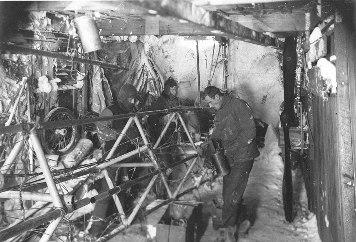 Work on the air-tractor sledge in hangar during the Australasian Antarctic Expedition. Left to right: Edward Bage, Belgrave Ninnis and Frank Bickerton.